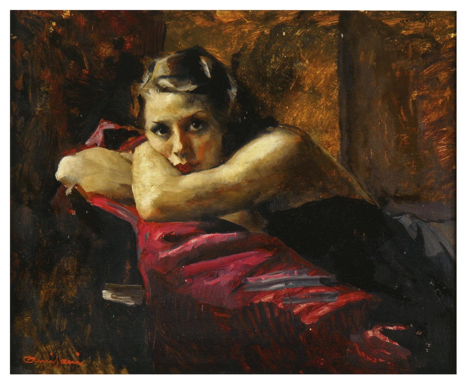 Portrait of Riri